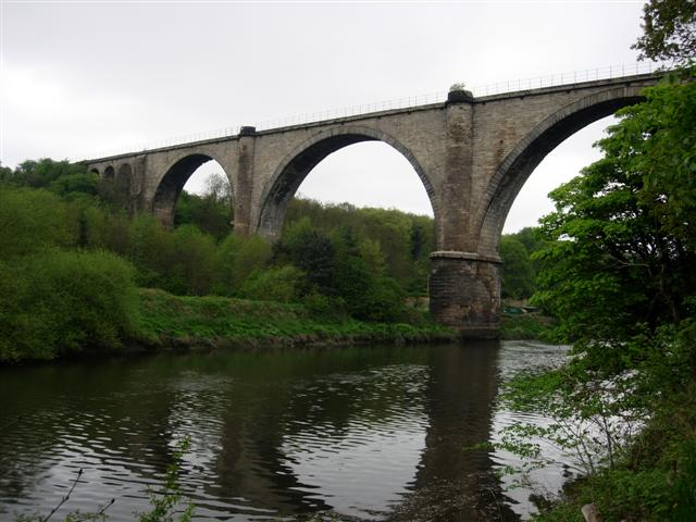 Victoria Viaduct over the River Wear. Opened in 1838. The main arch has a span of 160 feet (about 48 metres) and is the largest masonry railway arch in England. The line was closed to passengers in the 1960s. It was used for freight until finally being closed in 1991. Still, remarkably, in good condition.